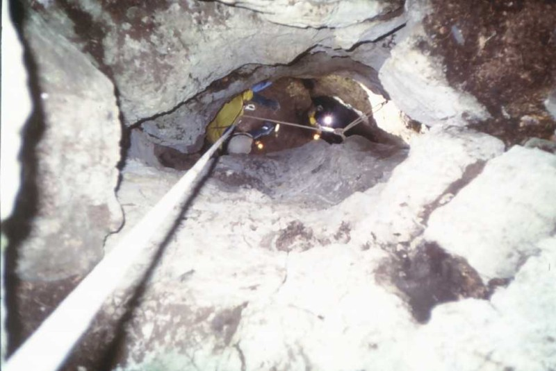 Enter of the cave "La Rasse"